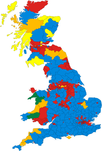 Full Res SVG version here: File:UK election, Oct 1974.svg Results of the United Kingdom general election October 1974. Based on data from the Boundary Commission. Red: LabourBlue: ConservativeOrange: LiberalYellow: Scottish NationalGreen: Plaid Cymru